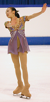 Mao Asada competes her long program at the 2005 World Junior Championships in Kitchener, Ontario.